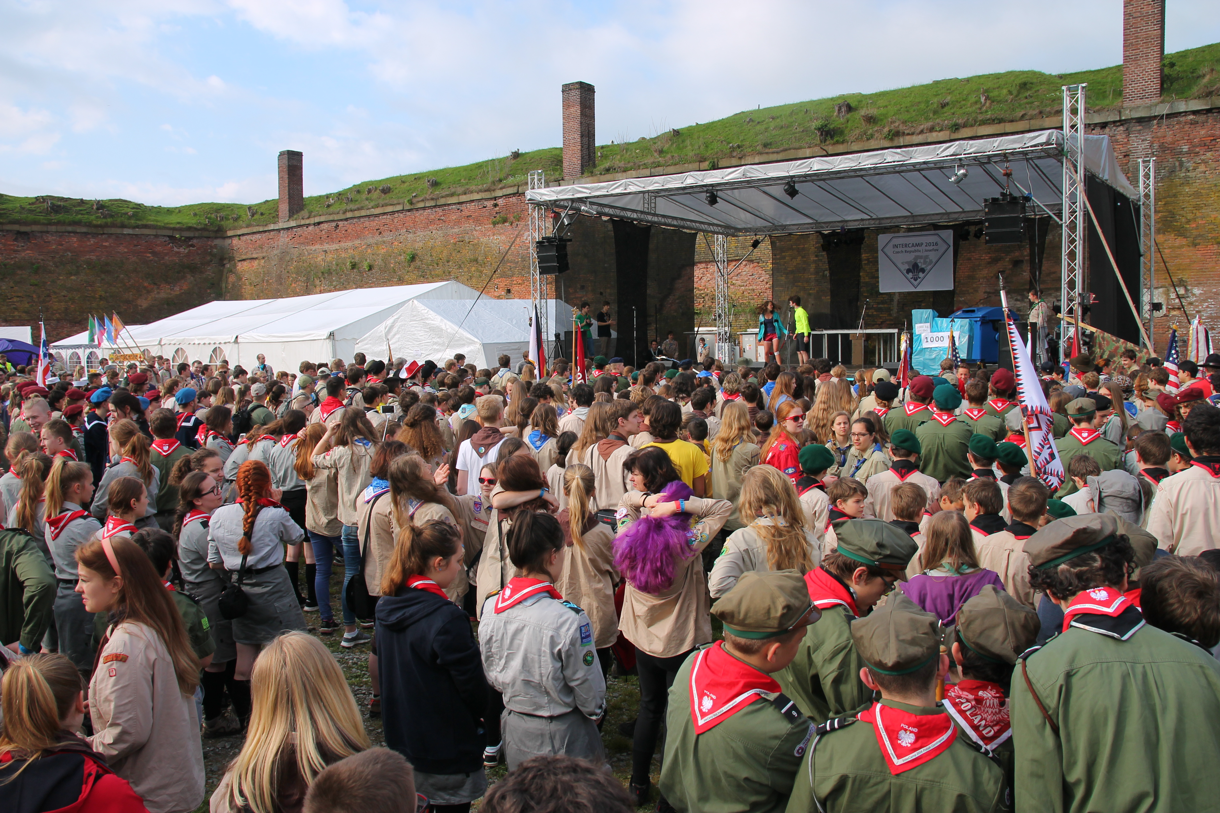 Intercamp 2016 (13.–16. 5. 2016), Josefov fortress, Jaroměře, Czech Republic, main stage during opening ceremony